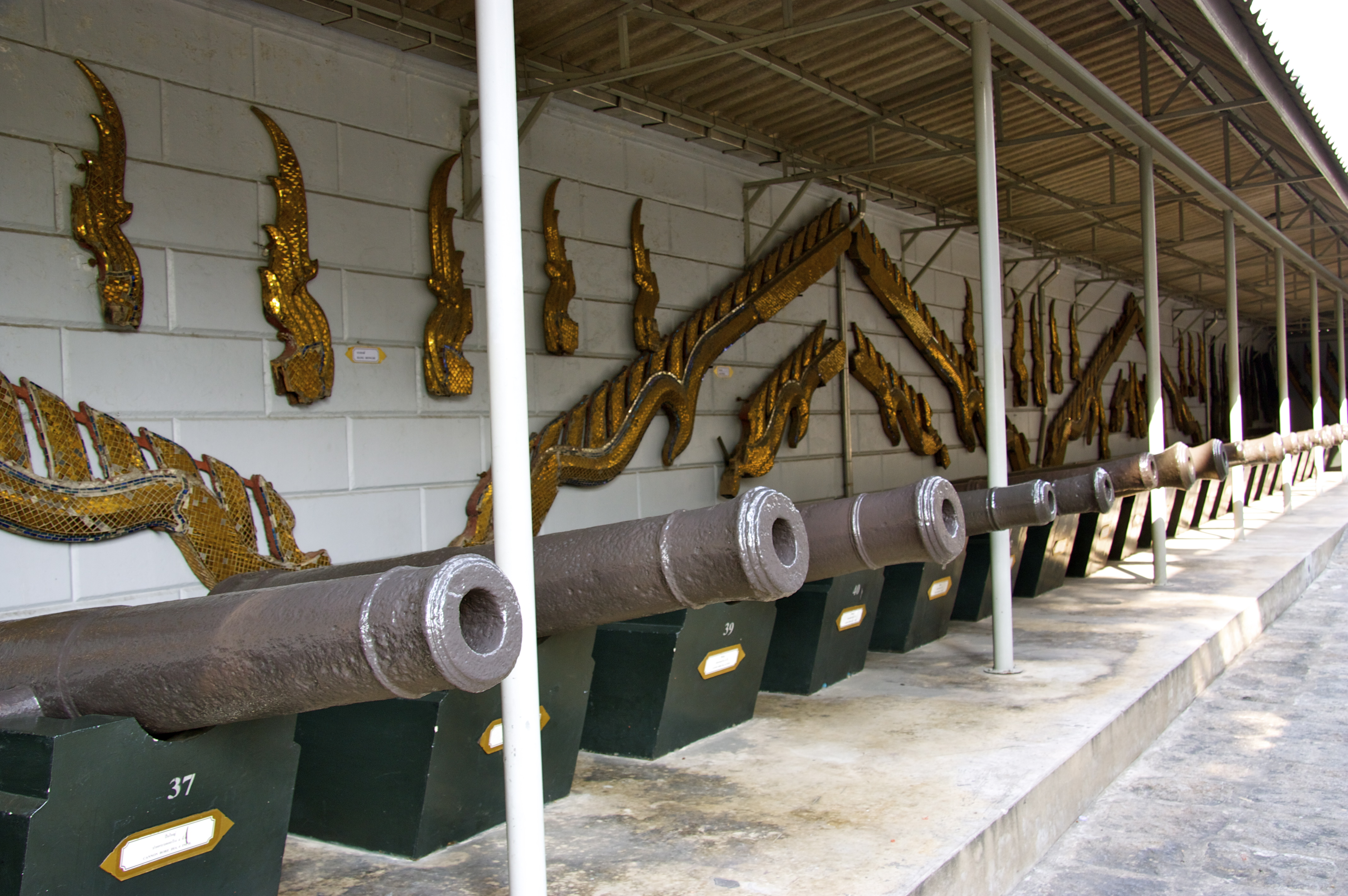 Cannons outside the Museum of the Emerald Buddha Temple, the Grand Palace, Bangkok